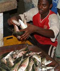 Ja'ar fish market, Abyan Governorate, southwestern Yemen.